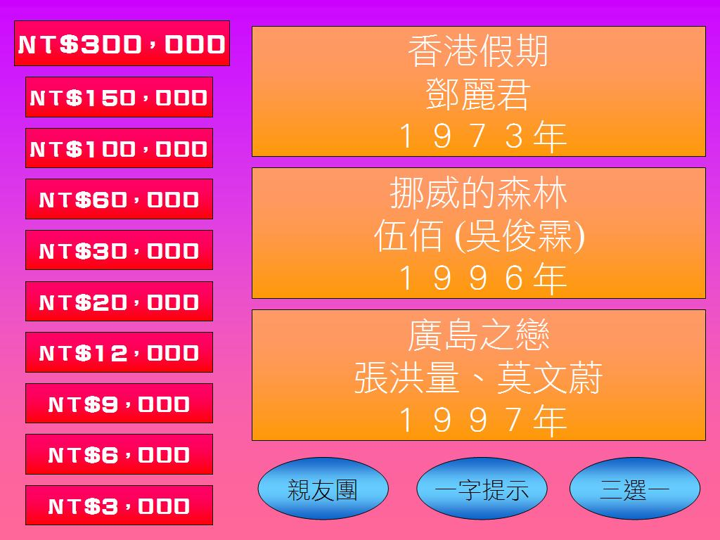 Screen Shot Simulation of the One Million Star TV Show